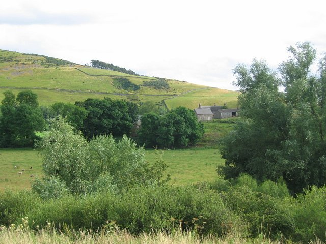 View through the trees to Bowshank